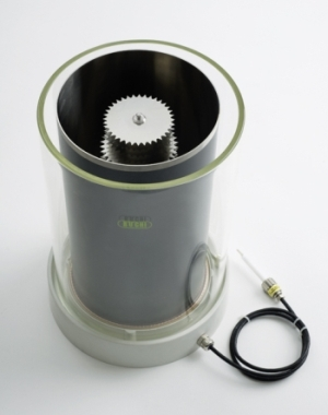 Electrostatic particle collector of a nano spray dryer.